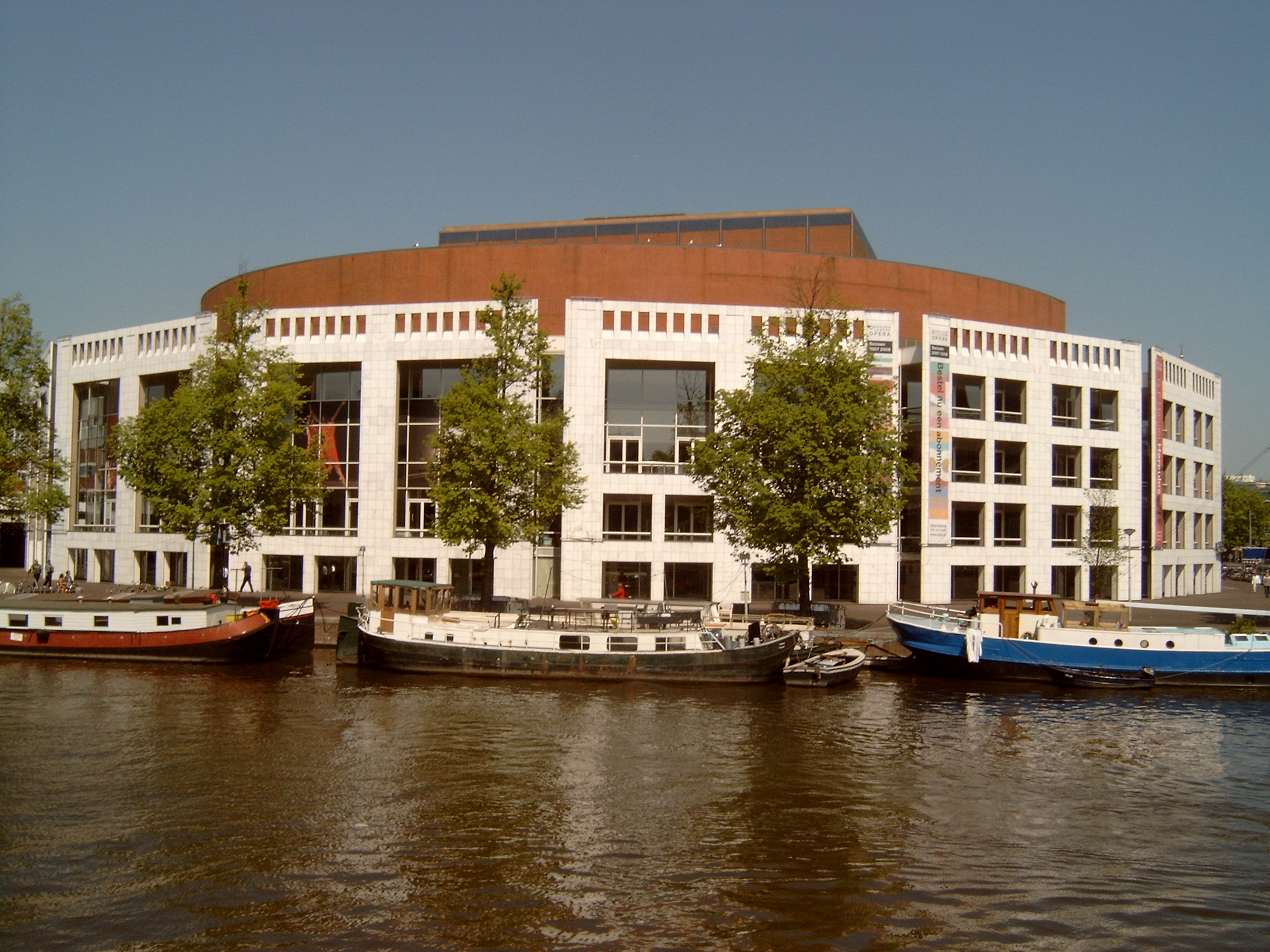 Amsterdam, the Stopera